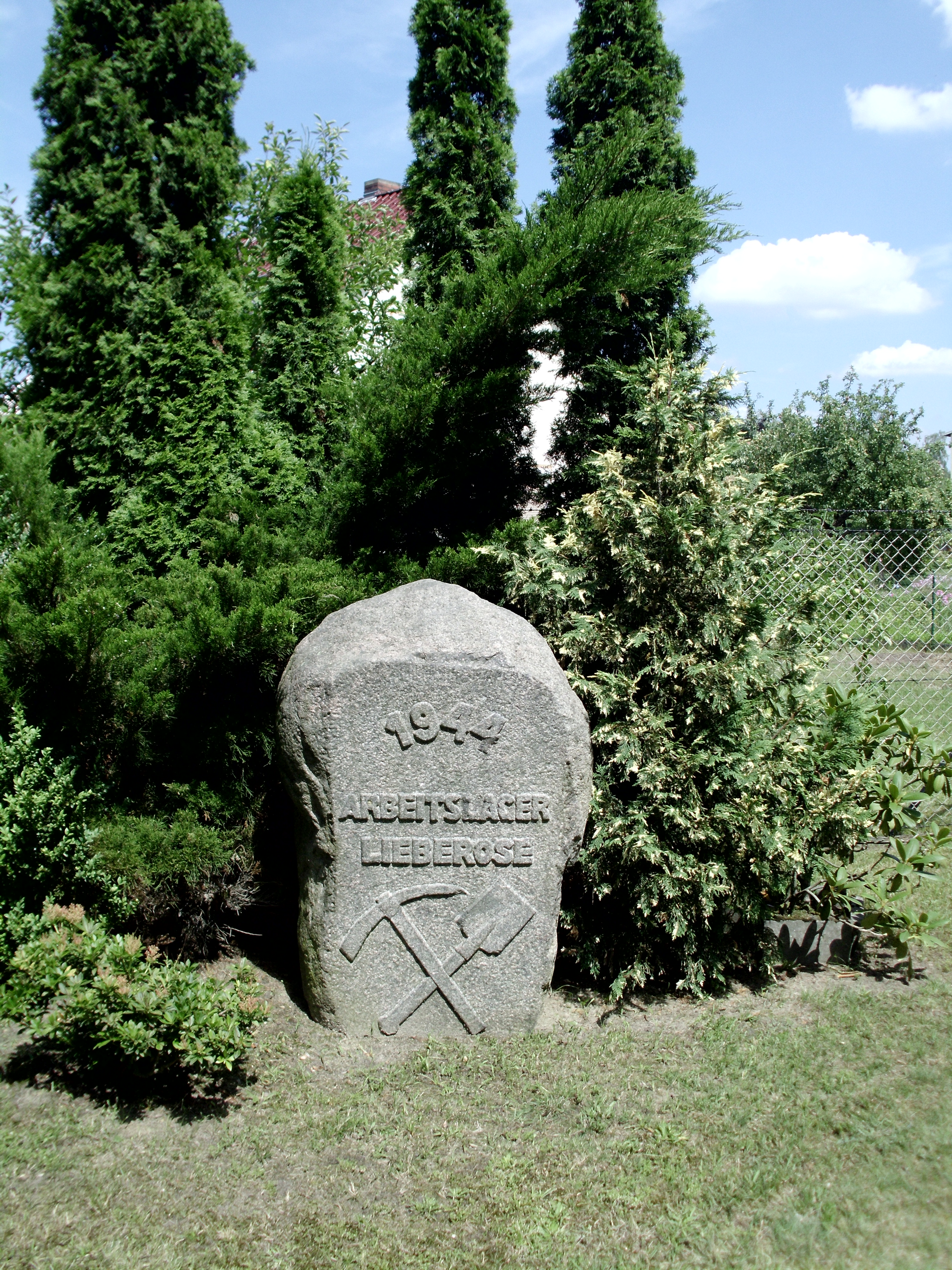 Jamlitz Memorial Stone "1944 Arbeitslager Jamlitz"